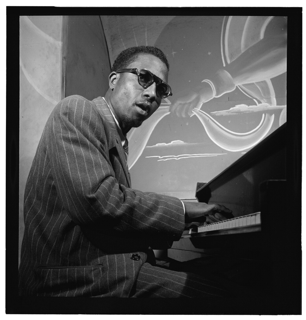 Thelonious Monk, Minton's Playhouse, New York, N.Y., ca. Sept. 1947 (Photograph by William P. Gottlieb)